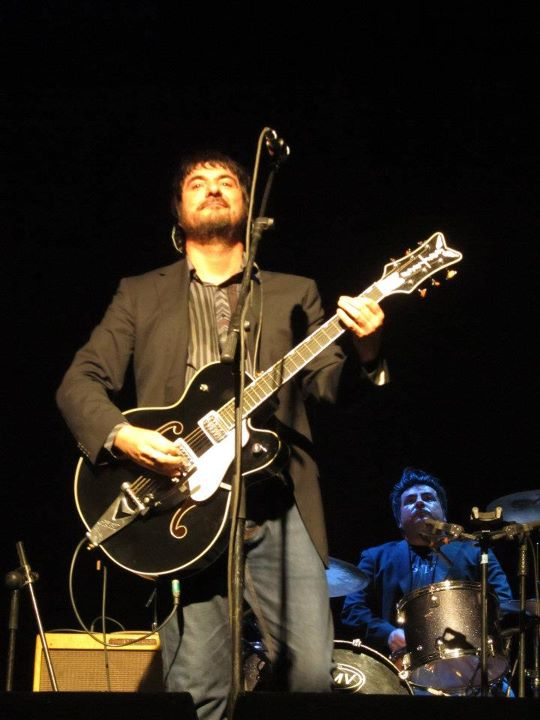 ÁLVARO HENRÍQUEZ, INEDIT FEST SHOW, "NESCAFE DE LAS ARTES" THEATER